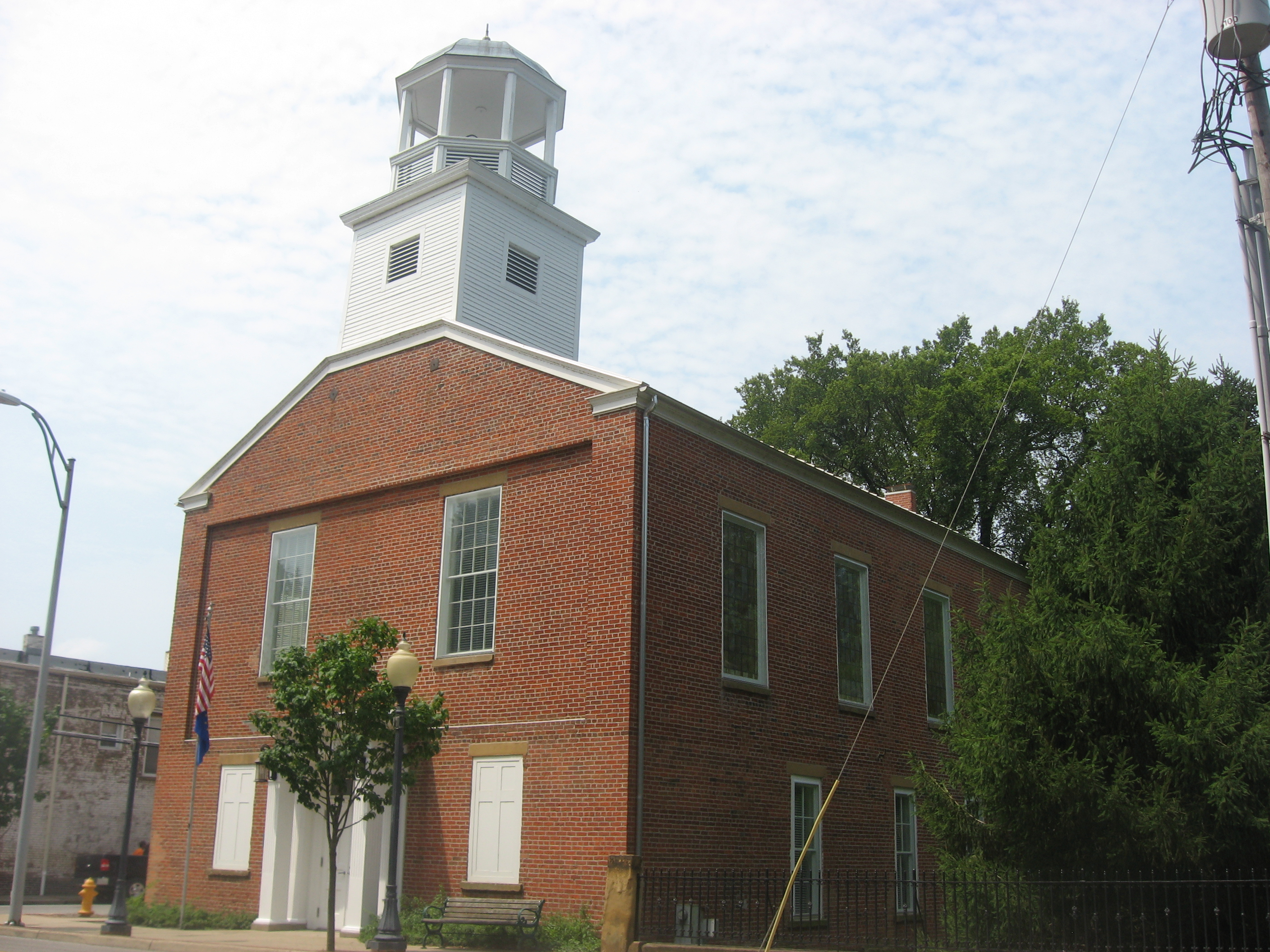 Front and northern side of the Old Newburgh Presbyterian Church, located on the northwestern corner of the junction of State and Main Streets in downtown Newburgh, Indiana, United States. Built in 1851 for a congregation of the Cumberland Presbyterian Church, it is now Newburgh's town hall, and it is listed on the National Register of Historic Places.